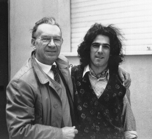 Enzo Morandini with Paolo Fresu in 1991